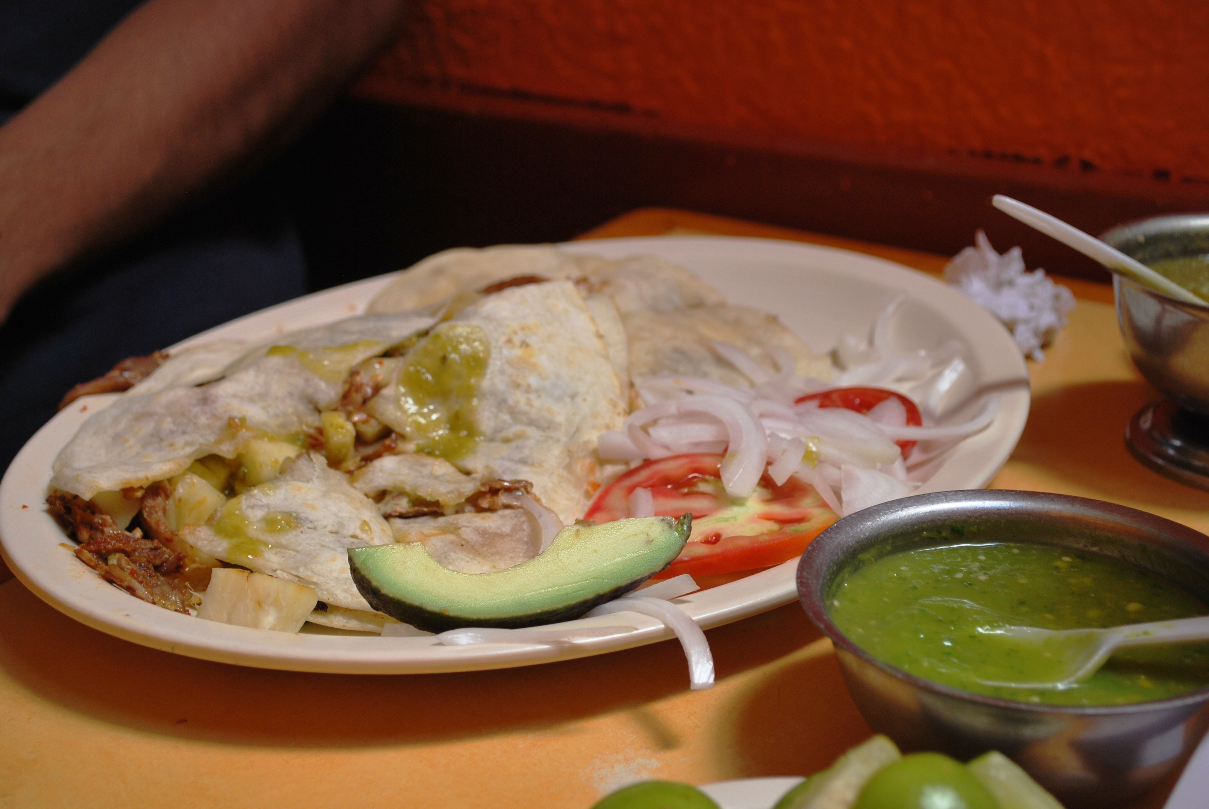 A dish called "gringas" (meat, cheese and sauce sandwiched between two flour tortillas and heated) at a restaurant in Mexico City